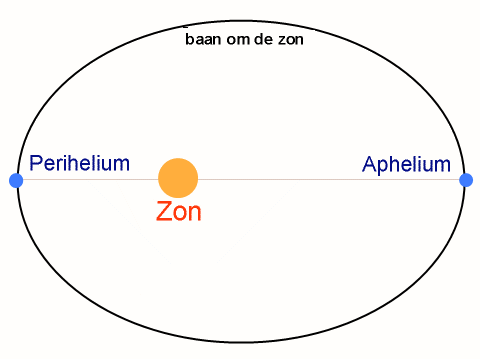 The Dutch translation of the image Aphélie Périhélie Terre Soleil.gif